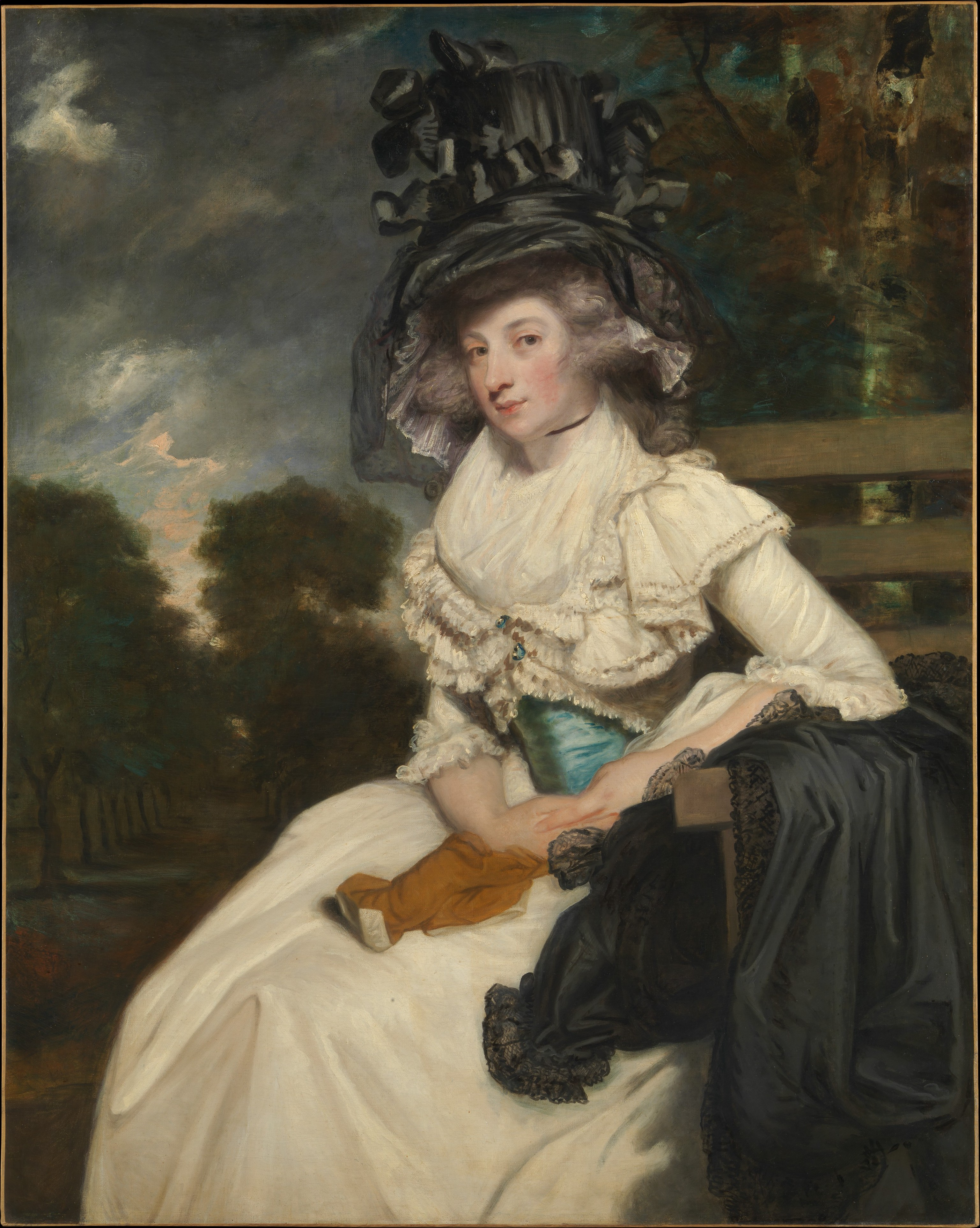 Mrs. Lewis Thomas Watson (Mary Elizabeth Milles, 1767–1818) Artist: Sir Joshua Reynolds (British, Plympton 1723–1792 London) Date: 1789 Medium: Oil on canvas Dimensions: 50 x 40 in. (127 x 101.6 cm) Classification: Paintings Credit Line: Bequest of Mrs. Harry Payne Bingham, 1986